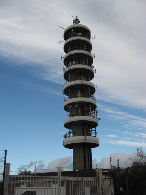 BTmicrowave telecommunication tower on Pur Down (Bristol). A prominent object visible from the M32, is sited on an old WW2 anti-aircraft gun site.